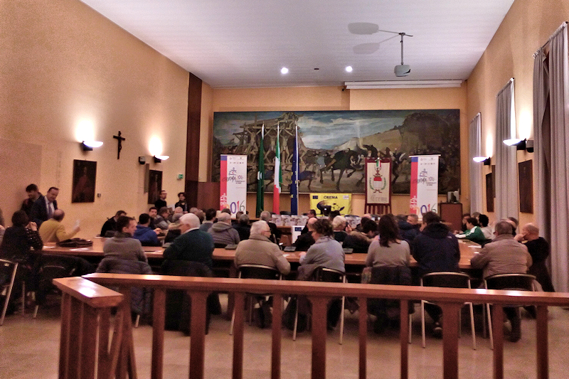 The "Aula degli Ostaggi", council chambers of city Hall of Crema (Italy)